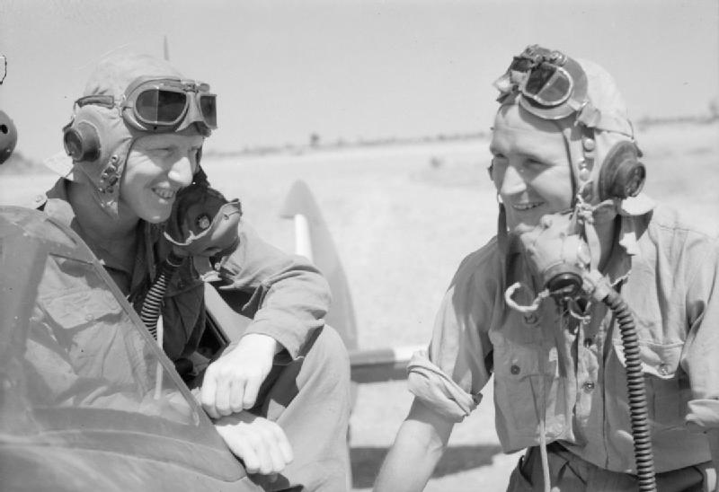 Royal Air Force Operations in the Far East, 1941-1945. Squadron Leader J H "Ginger" Lacey, Officer Commanding No. 17 Squadron RAF, sitting in the cockpit of his Supermarine Spitfire Mark VIII, talking to his Australian 'number two', Warrant Officer J S Sharkey, at Ywadon, Burma, shortly after Lacey had shot down a Nakajima Ki 43 south of Sagaing to claim his 30th and final victory of the War.